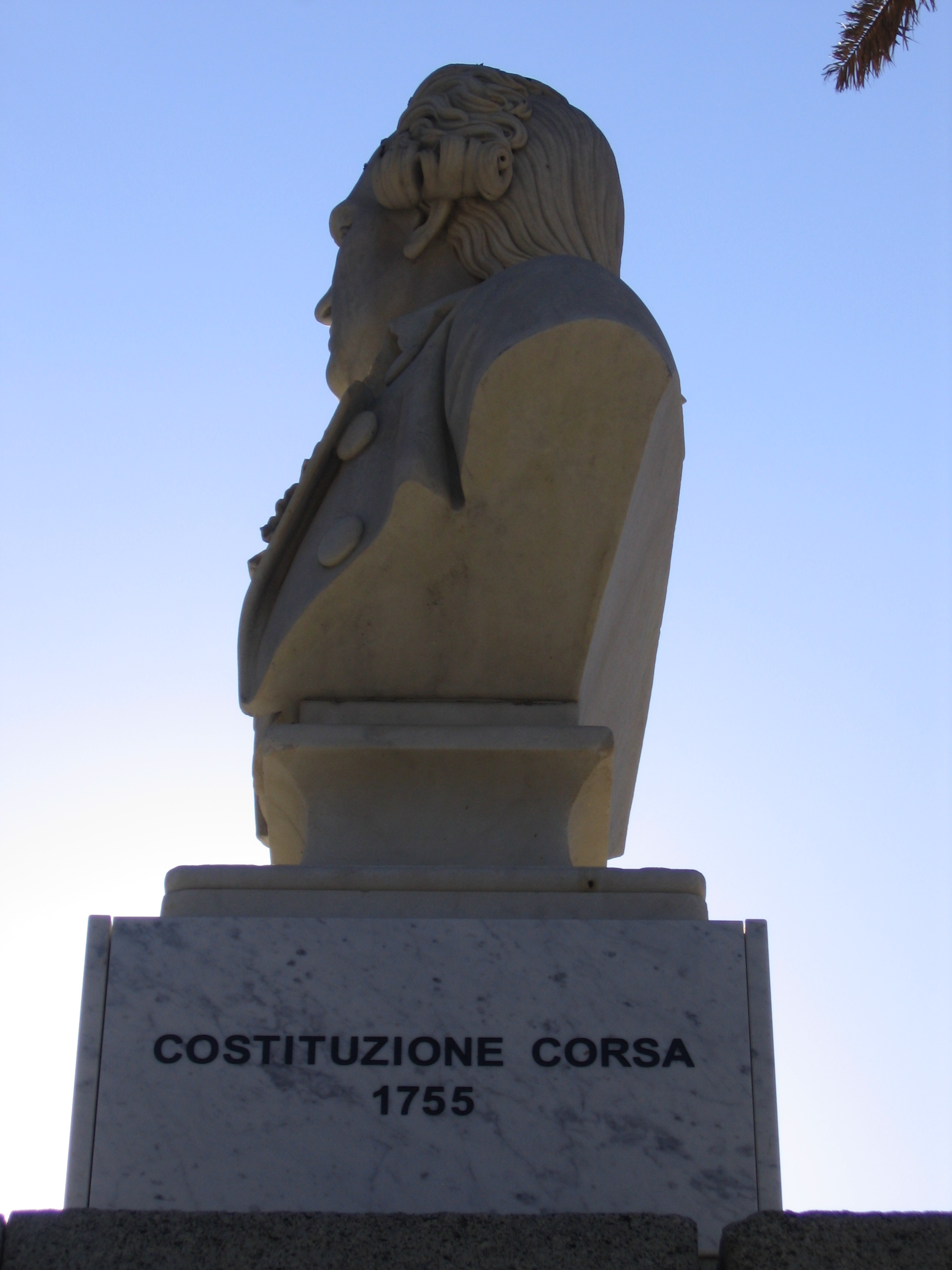 Sculpture of Pascal Paoli in l'Ile Rousse